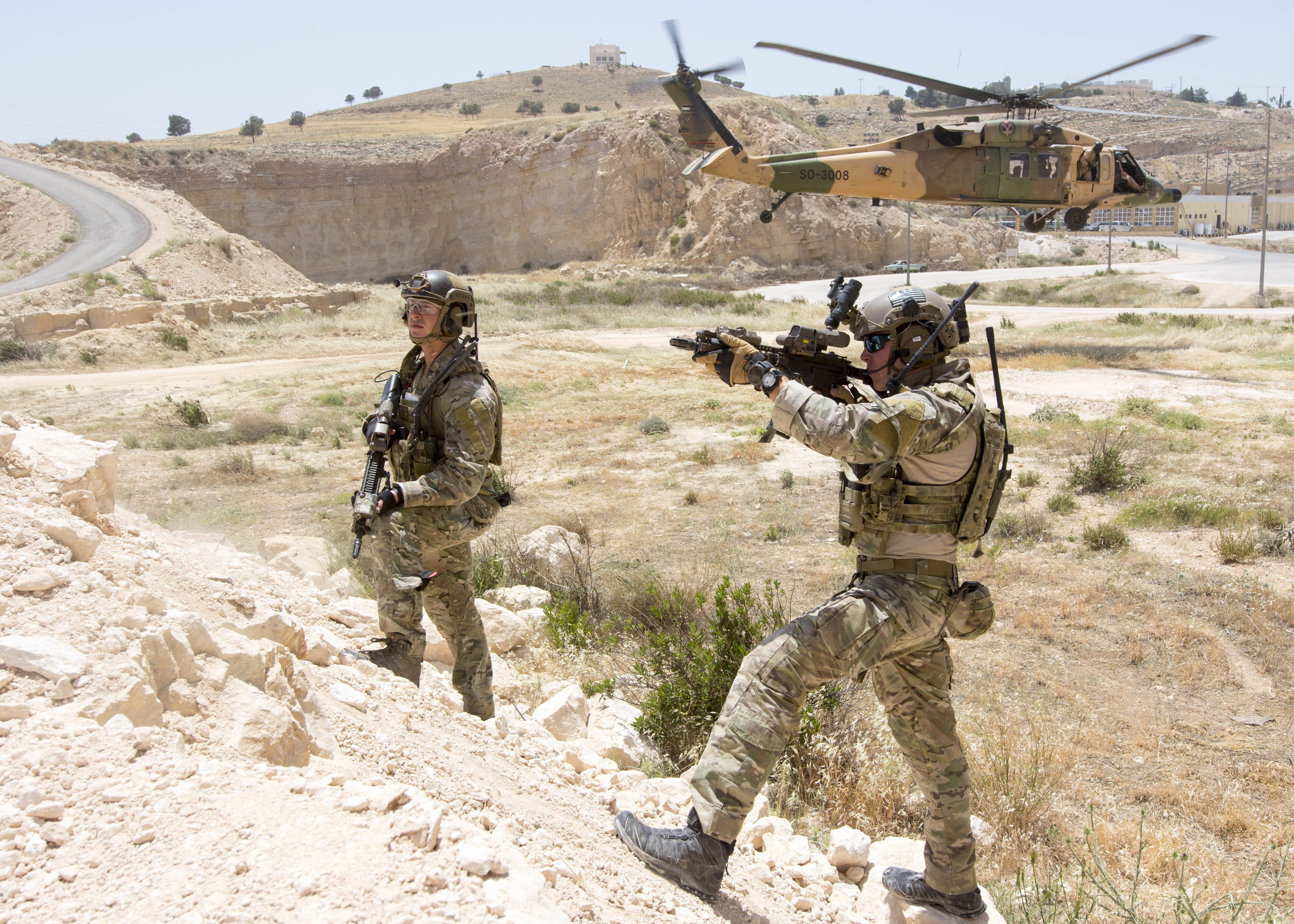 Members of the U.S. Air Force Special Operations Command, assigned to the 23rd Special Tactics Squadron, provide security of a landing zone during a combat search and rescue exercise in support of Eager Lion 2017. Eager Lion is an annual U.S. Central Command exercise in Jordan designed to strengthen military-to-military relationships between the U.S., Jordan and other international partners. This year's iteration was comprised of about 7,200 military personnel from more than 20 nations that responded to scenarios involving border security, command and control, cyber defense and battlespace management.